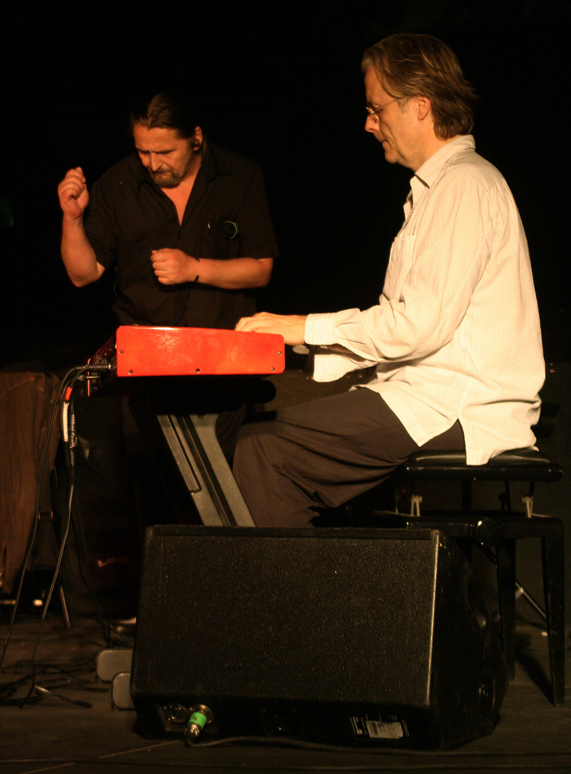 The Slow Club